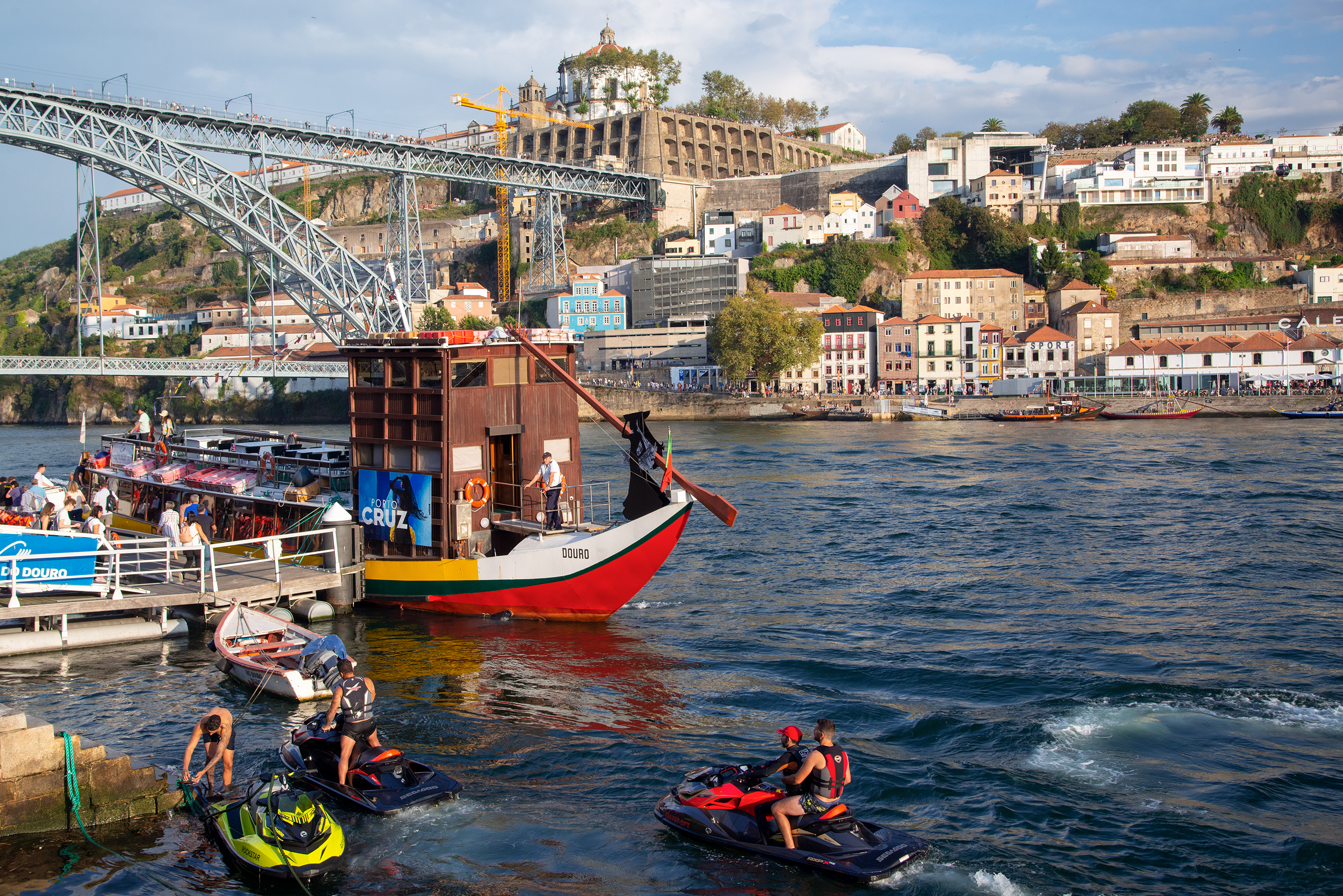 riverside quarter, known as the Ribeira, tourists, Porto